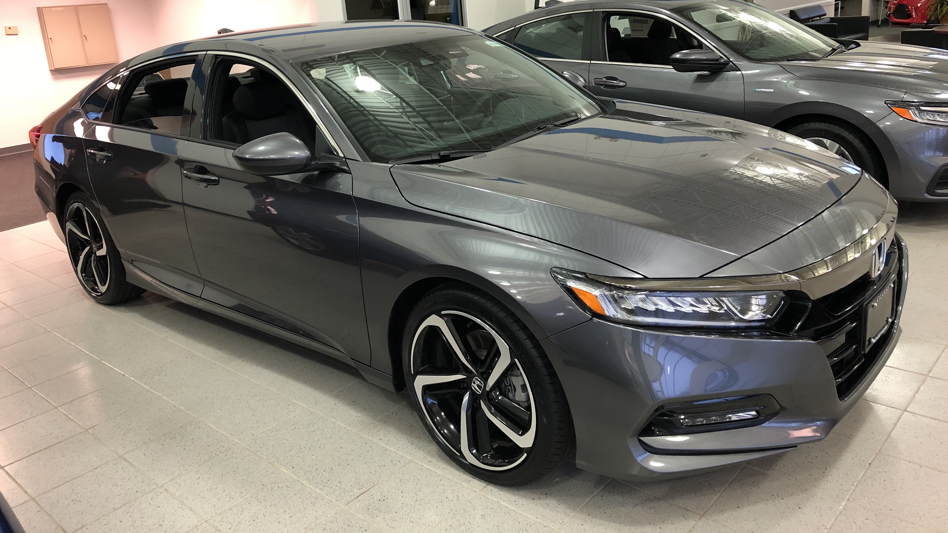 The front of a gray tenth generation Honda Accord, photographed in a Ganley Honda dealership